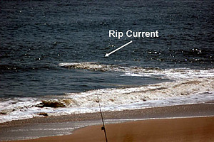 Dangerous rip current viewed from the side and above at a public swimming beach.